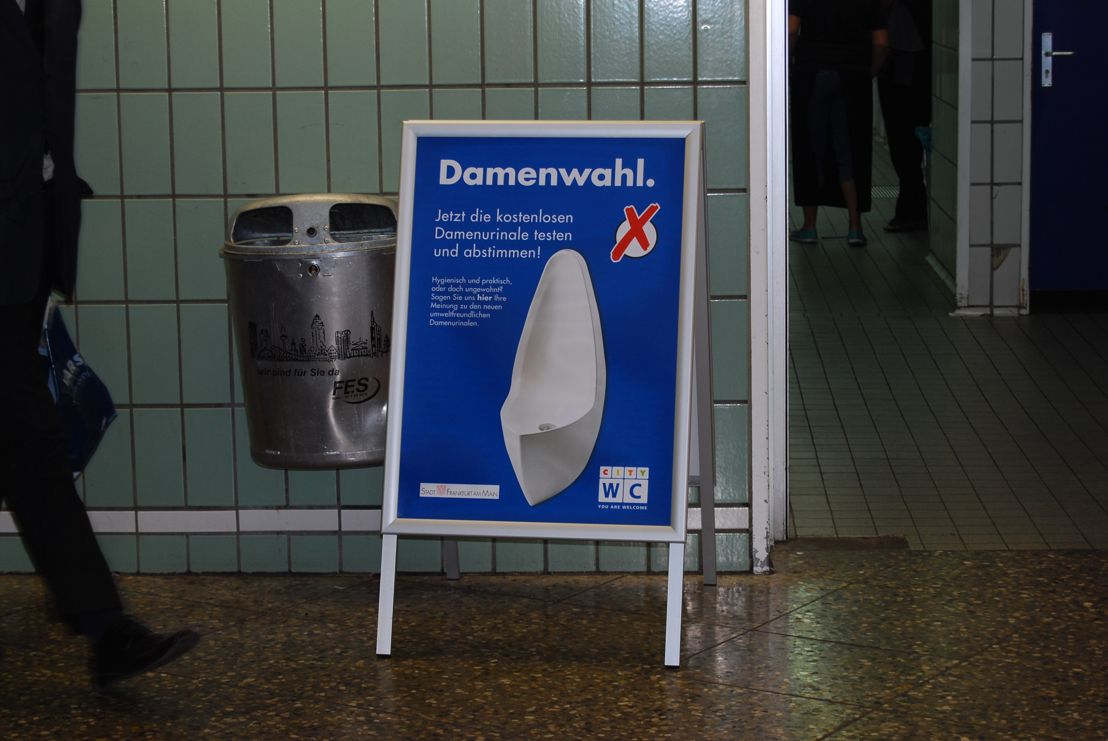 Photo by Katharina Löw, June 2011